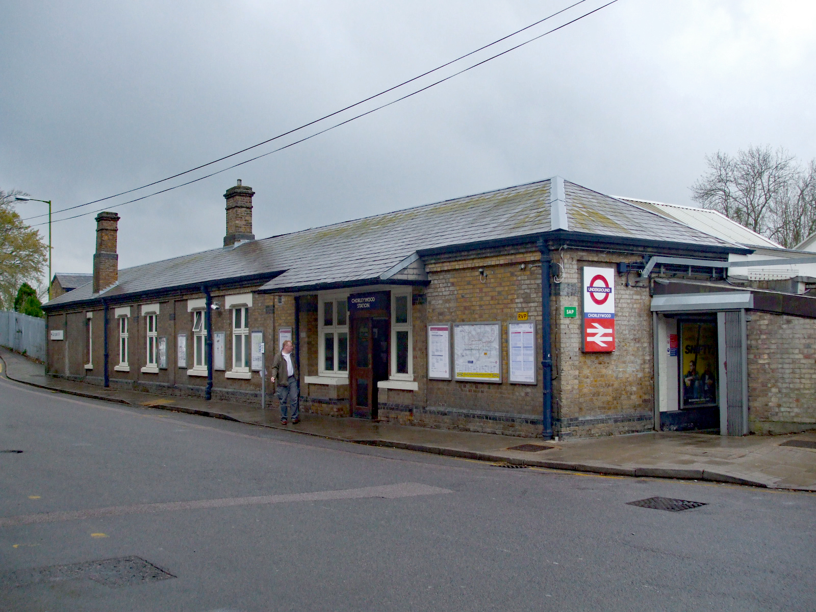 Chorleywood station building, on the southbound side